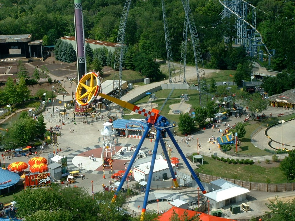 This is a photo of Delirium at Kings Island